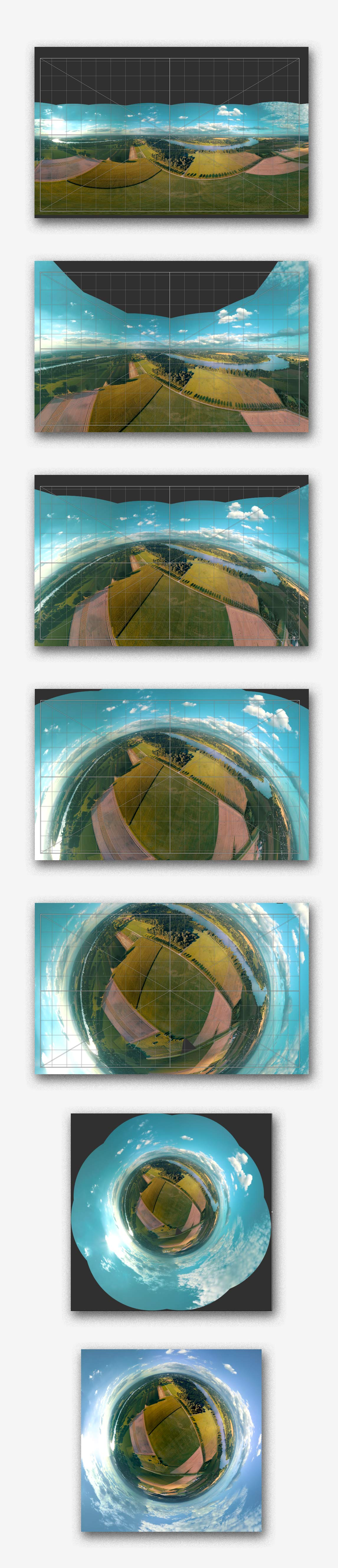 Procedure to render a Little Planet (Tiny Planet) panorama. The top image uses a spherical interpretation of the original 34 stitched together photographs. The second image shows a stereographic projection method. The next pictures show the manipulation of the stereo projection until the ends meet at the buttom. Between the two buttom images a rotation and a slight change of colour balance are being applied. This finishes up the Little Planet process.